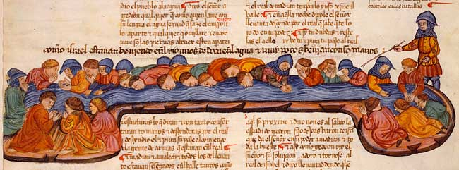 Gideon selects those Israelites who drink from their hands, to fight against Midian. Beside an expanse of water which extends across the page, Gideon's men lie flat, crouch or kneel; they drink by stretching out their heads to lap the water, or by carrying the water to their mouths in their hands. Gideon, standing on the right and wearing a jerkin with a helmet and mail headpiece, chooses those who will accompany him into battle: with his stick, he points out the three hundred men who are drinking from their hands.